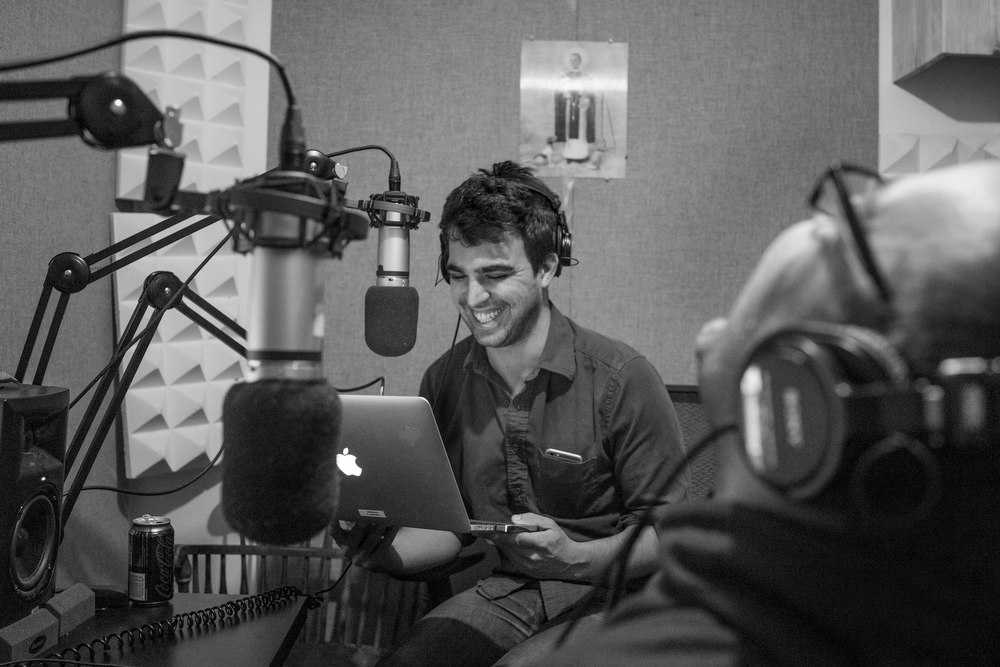 Gimlet Media offices at 33 Flatbush Avenue, Brooklyn